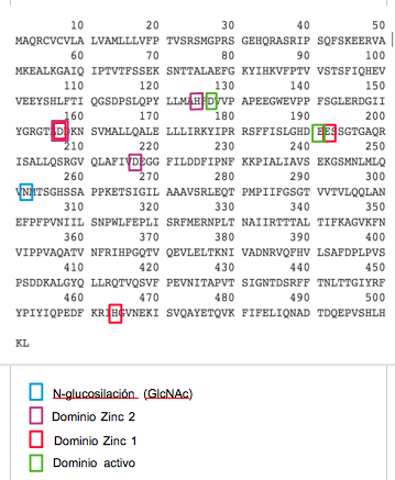 Amino acid sequence of the probable carboxypeptidase PM20D1